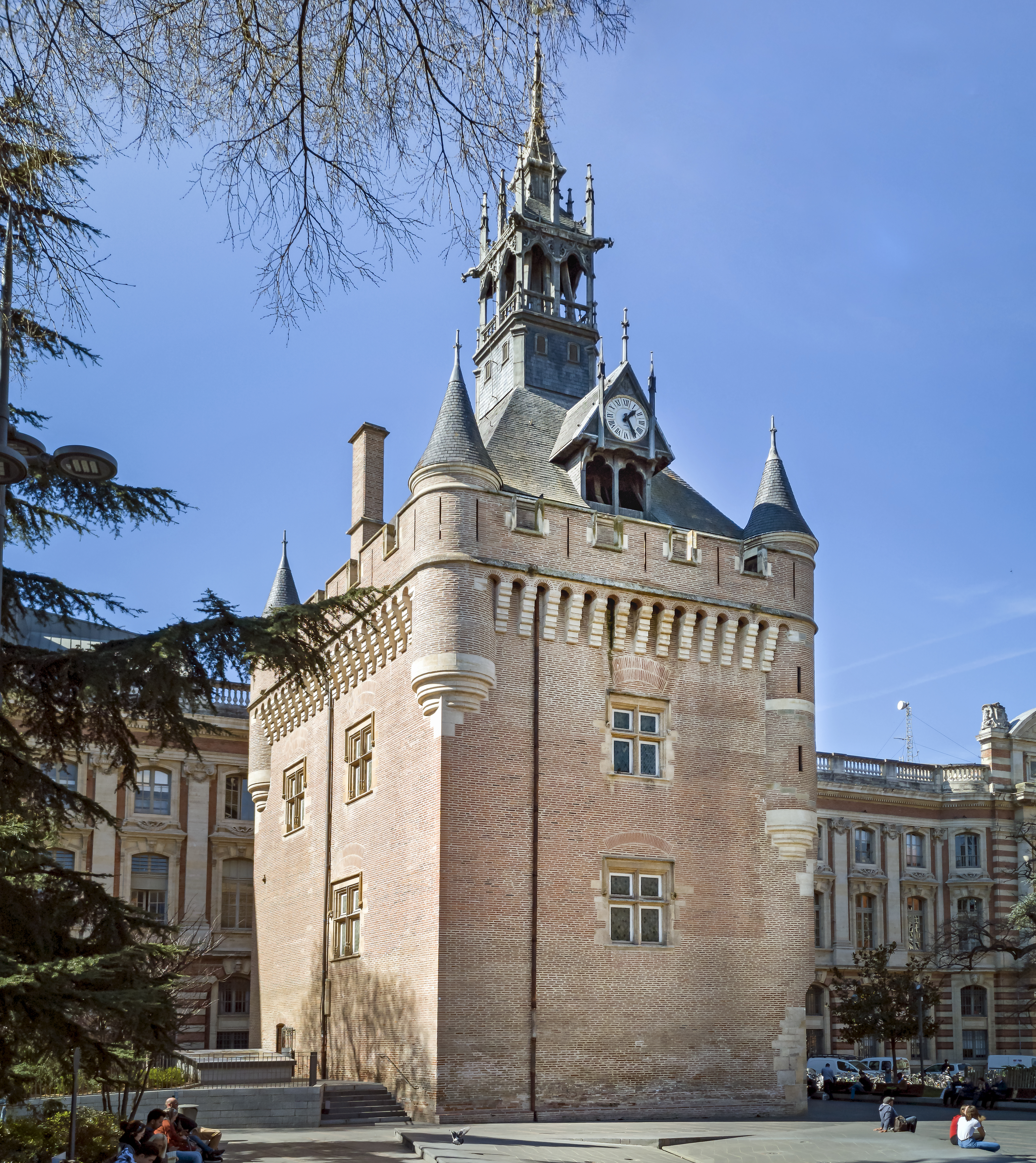 Capitole de Toulouse - The dungeon, seen from the Charles de Gaulle Square.